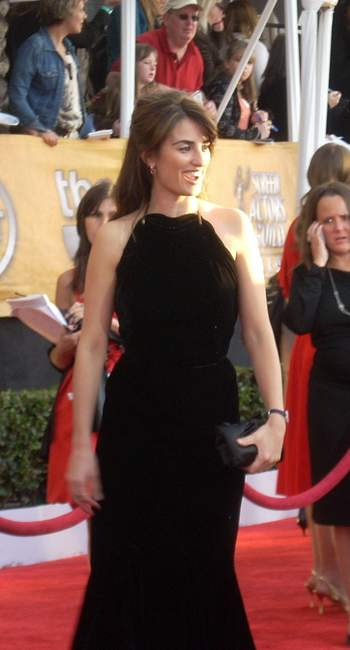 Actress Penélope Cruz, nominated for "Vicky Cristina Barcelona", at the 15th Screen Actors Guild Awards depicted person: Penélope Cruz (age: 34.75)